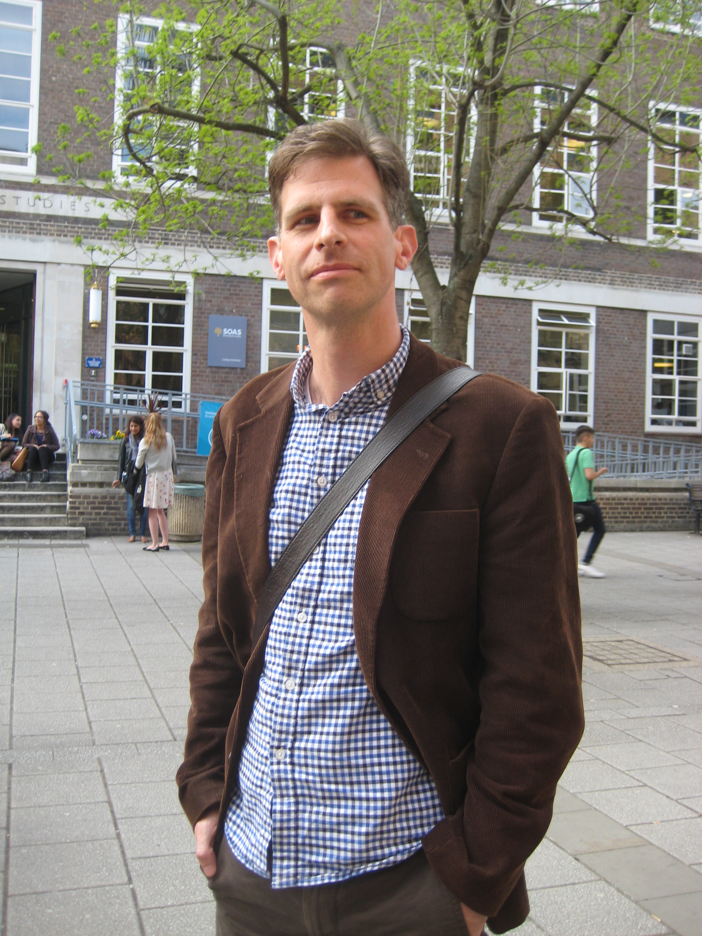 Sam van Schaik at the Day of Tangut Studies event at SOAS, University of London, 25 April 2013.